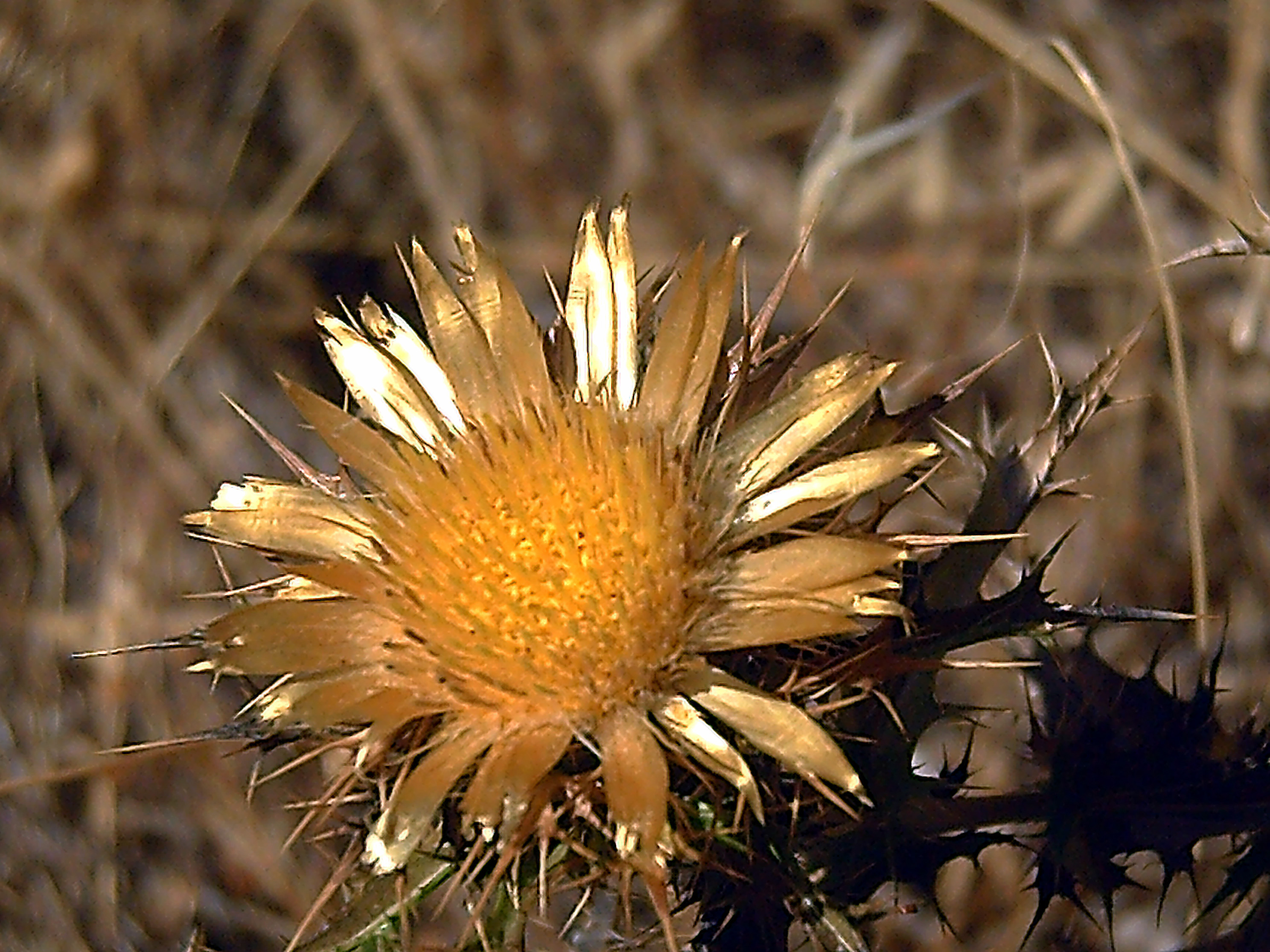 Carlina racemosa inflorescence close up, Sierra Madrona, Spain